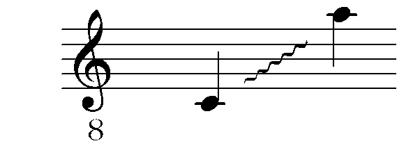 voice range of a tenor